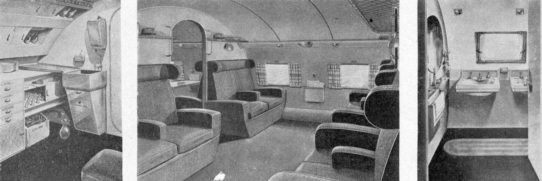 De Havilland Albatross interior concept sketches from L'Aerophile January 1939